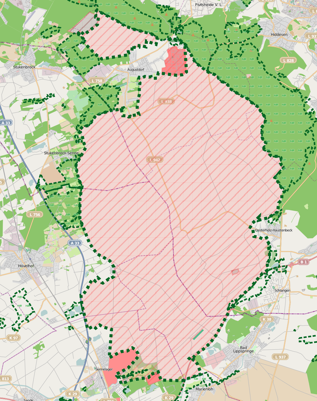 Senne - nature reserves & bird protection areas - overview map The file depicts bird protection areas in the Senne landscape as well as nature reserves in and around it. Number and borders of nature reserves and bird protection areas are subject to frequent change. In order to facilitate reproduction of this map from openstreetmap, the following data is stored here: export boundaries: north: 51.94; west: 8.64; south: 51.76; east: 8.87; mapnik svg, scale 1:110.000 nature reserve boundary stroke weight 5.0; dashed line bird protection area stroke weight 10.0; dotted line nature reserve & bird protection area stroke color: R 5, G 102, B 36; municipality border stroke weight: as found in export